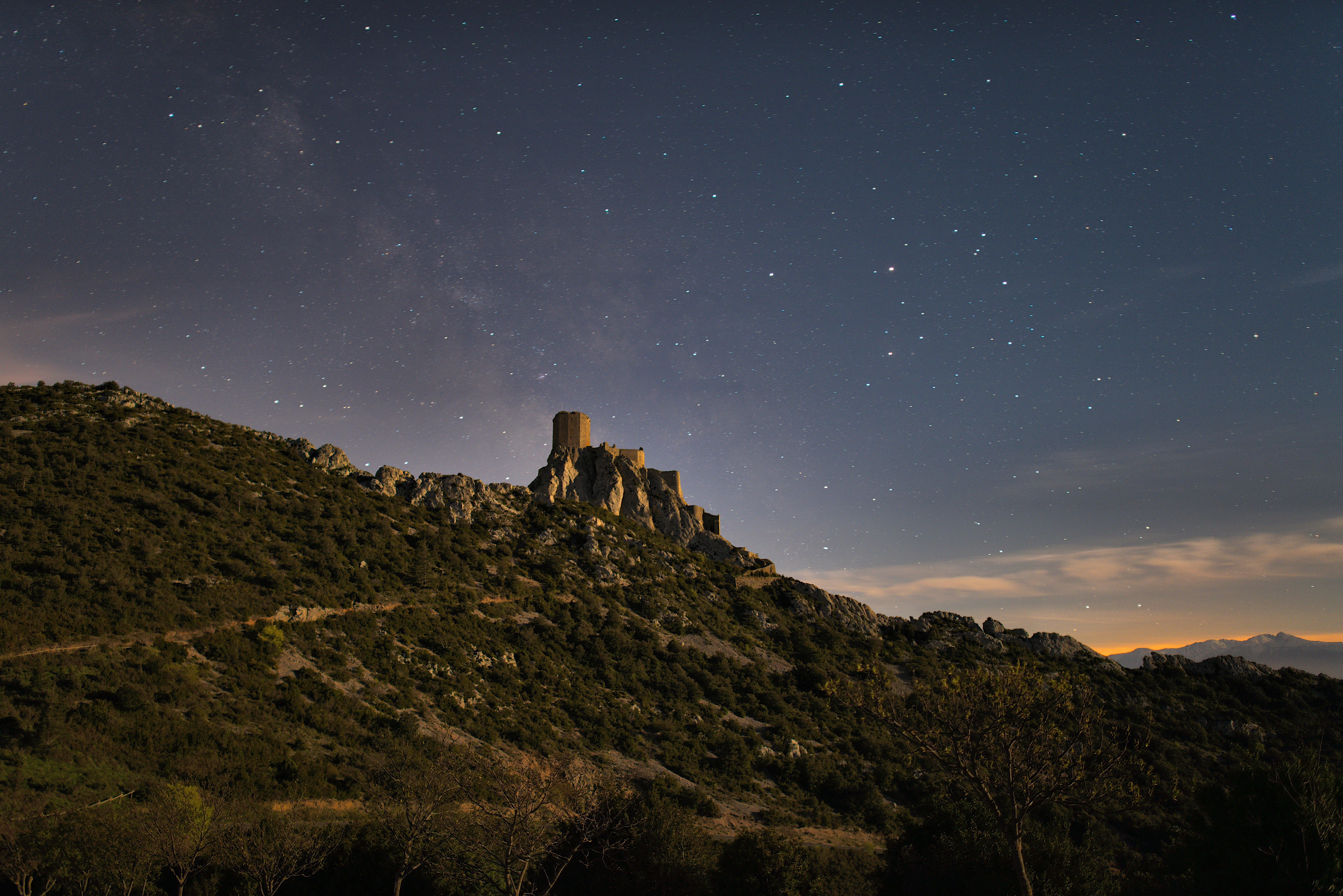 Château de Quéribus in Aude, France